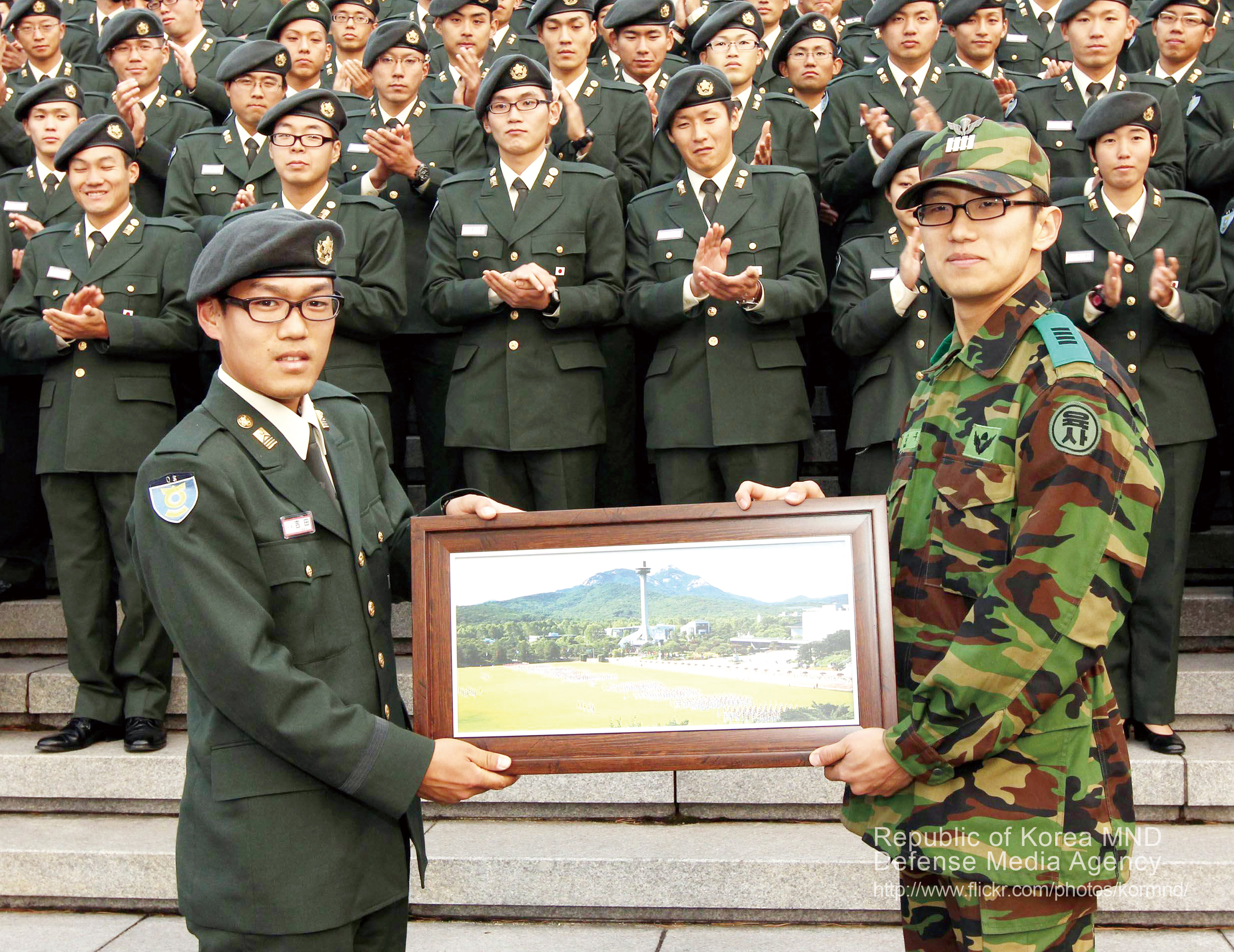 Japanese Self-defense Forces cadets visited the Korea Military Academy and exchanged gifts to promote friendship.